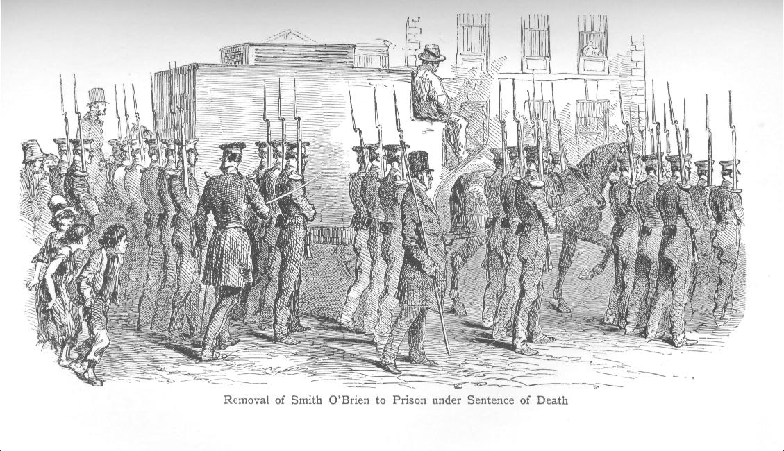 Woodcut depicting Removal of William Smith O'Brien To Prison under sentence of death in 1848.